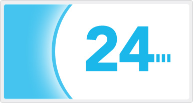 WiiConnect24 logos